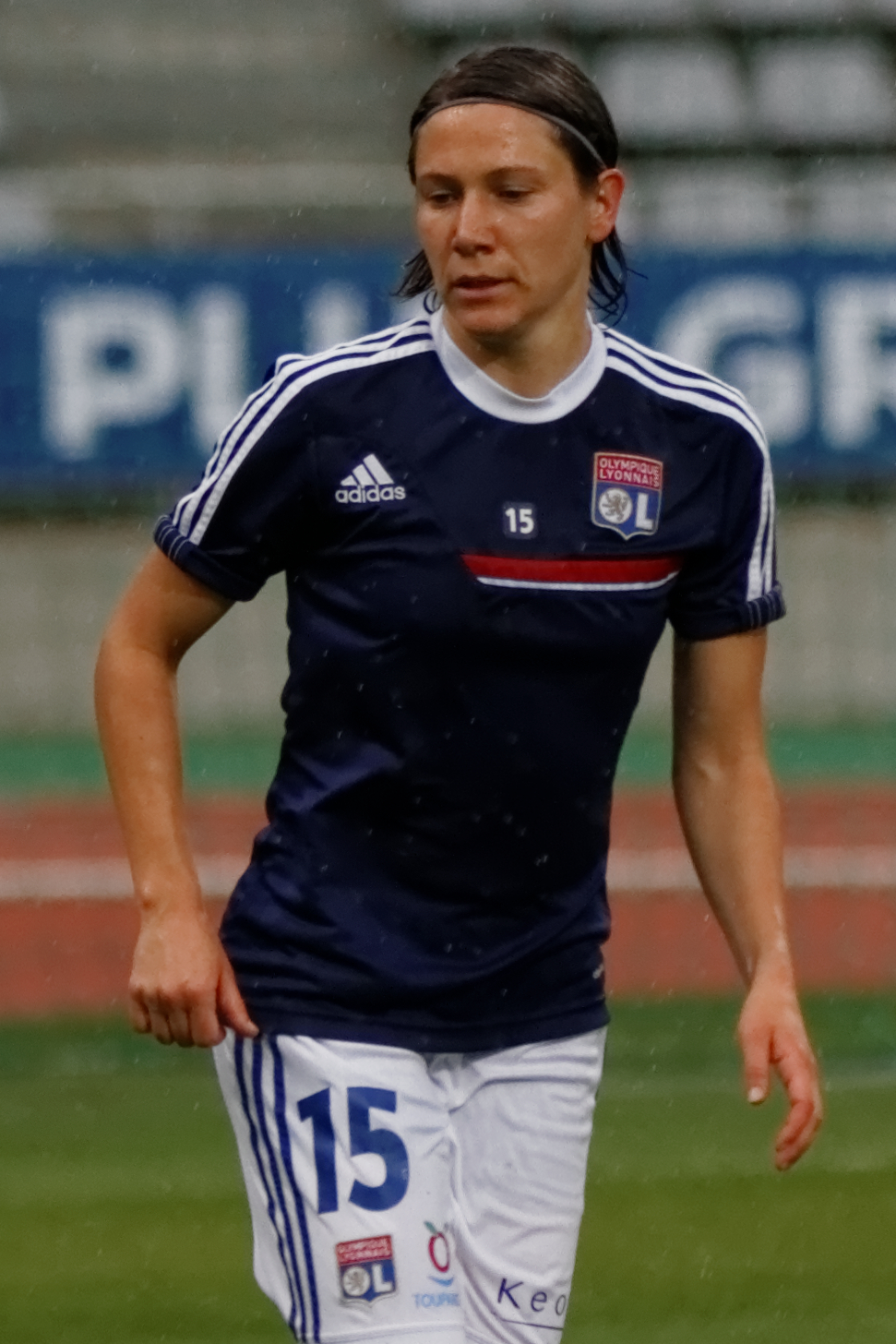 PSG-Lyon, September 29th, 2013.